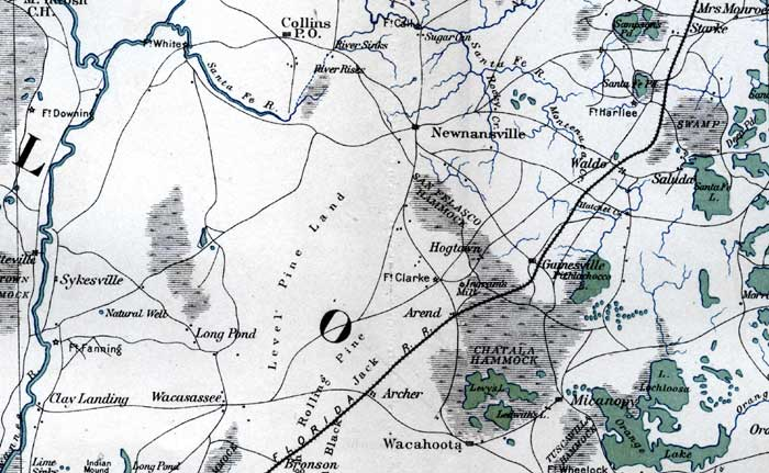 Detail of map showing Alachua County in 1865